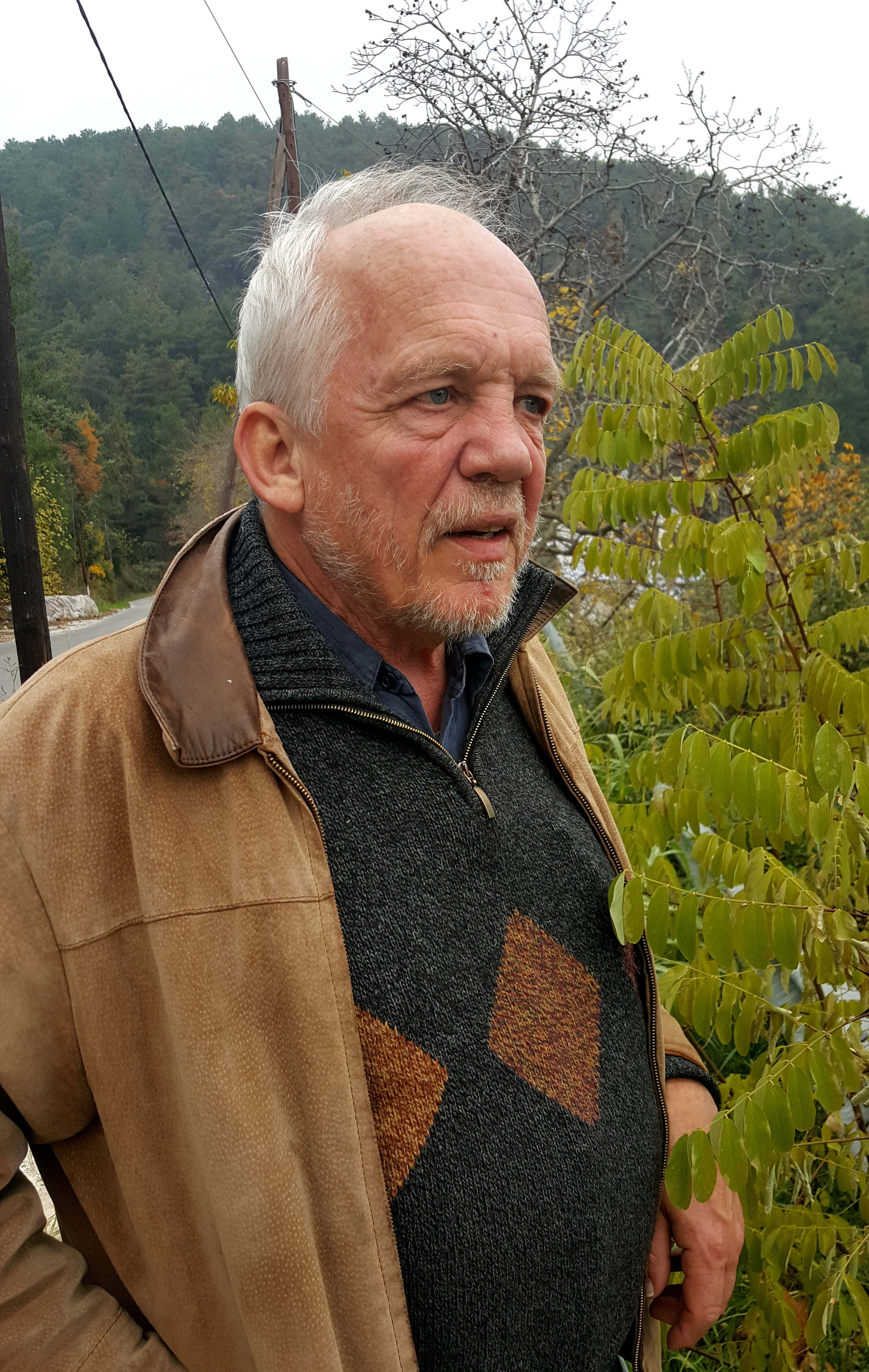 Swedish wind power expert Tore Wizelius, photographed on the Greek island of Thassos in November 2016.